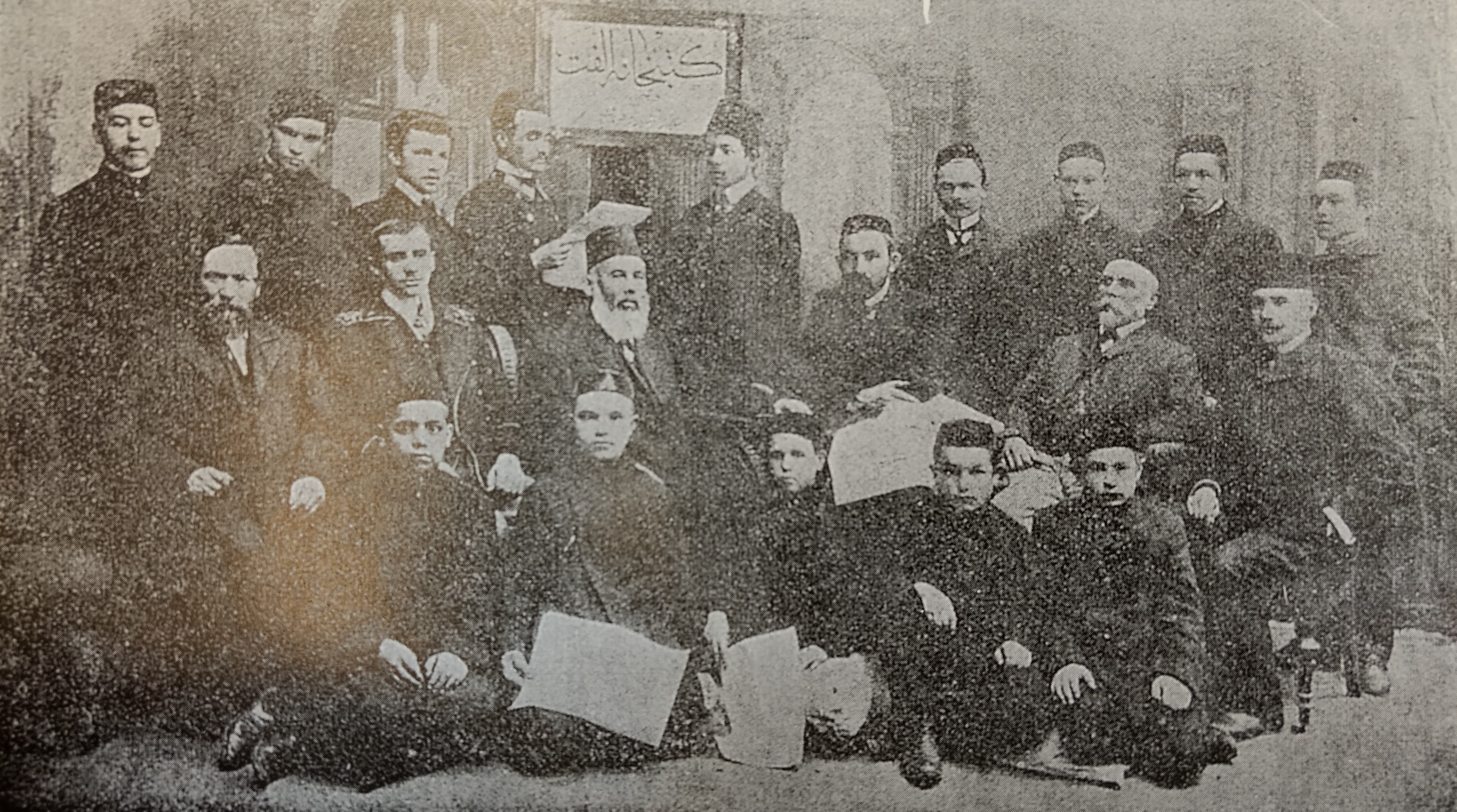 Photograph of the publishers of Ülfät newspaper